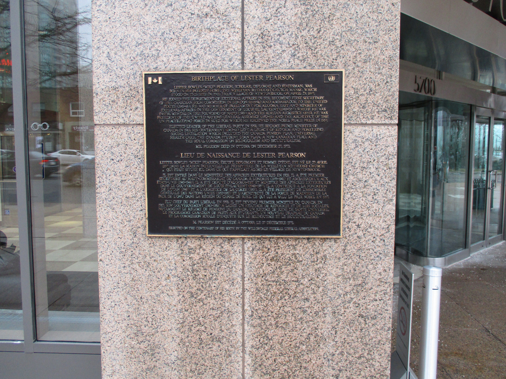 A memorial plaque commemorates the birthplace of former Prime Minister of Canada Lester B. Pearson at what is now the North American Centre at 5700 Yonge Street in Toronto, Ontario.